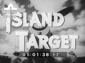 The main title to the documentary film Island Target 1945